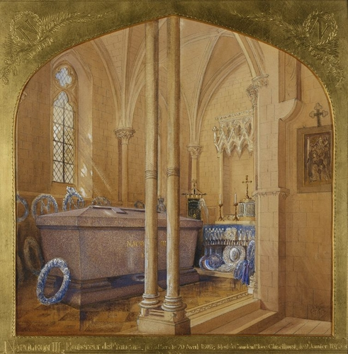 Tomb of Emperor Napoleon III at Chislehurst dated 1879. 35.1 x 34.7 cm (frame, external). RCIN 450639. DM 4175: interior of the chapel with the red granite sarcophagus with 'Napoleon II R.I.P.' on side, an altar and numerous wreaths. Signed and dated. Elaborate arched frame.